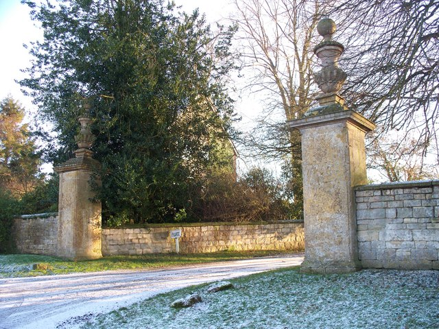 Impressive entrance The driveway to Ebrington Hall, Ebrington, Gloucestershire, as seen from the minor road from Chipping Campden. The gate posts are magnificent.